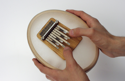 "Sansula" is a variant of the kalimba (mbira) developed and patented by a musician and instrument builder of Germany in 2001. It consists of a wood ring covered with a membrane (drumhead), similar to a frame drum, and classical Kalimba mounted on which.